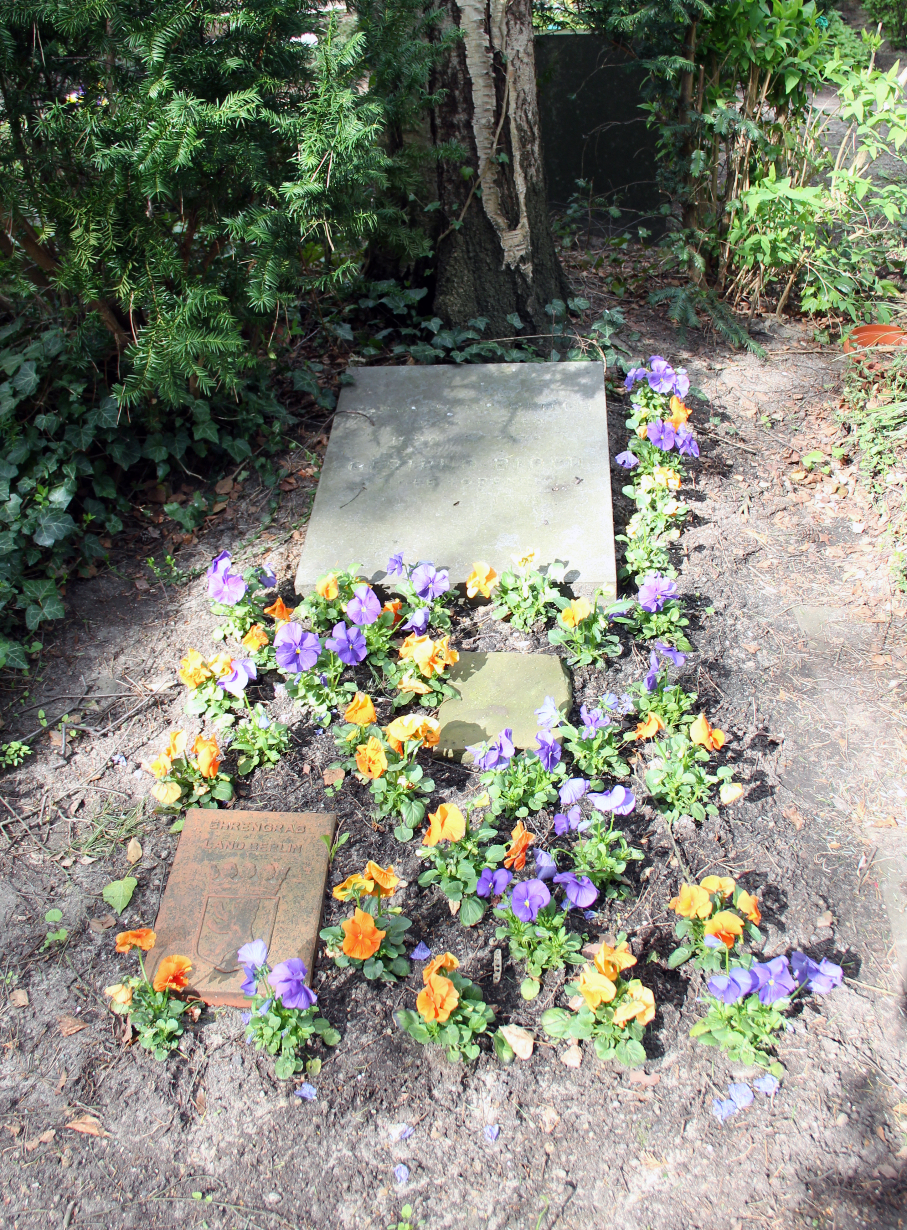 Grave of honor, Werner Bloch, Trakehner Allee 1, Berlin-Westend, Germany